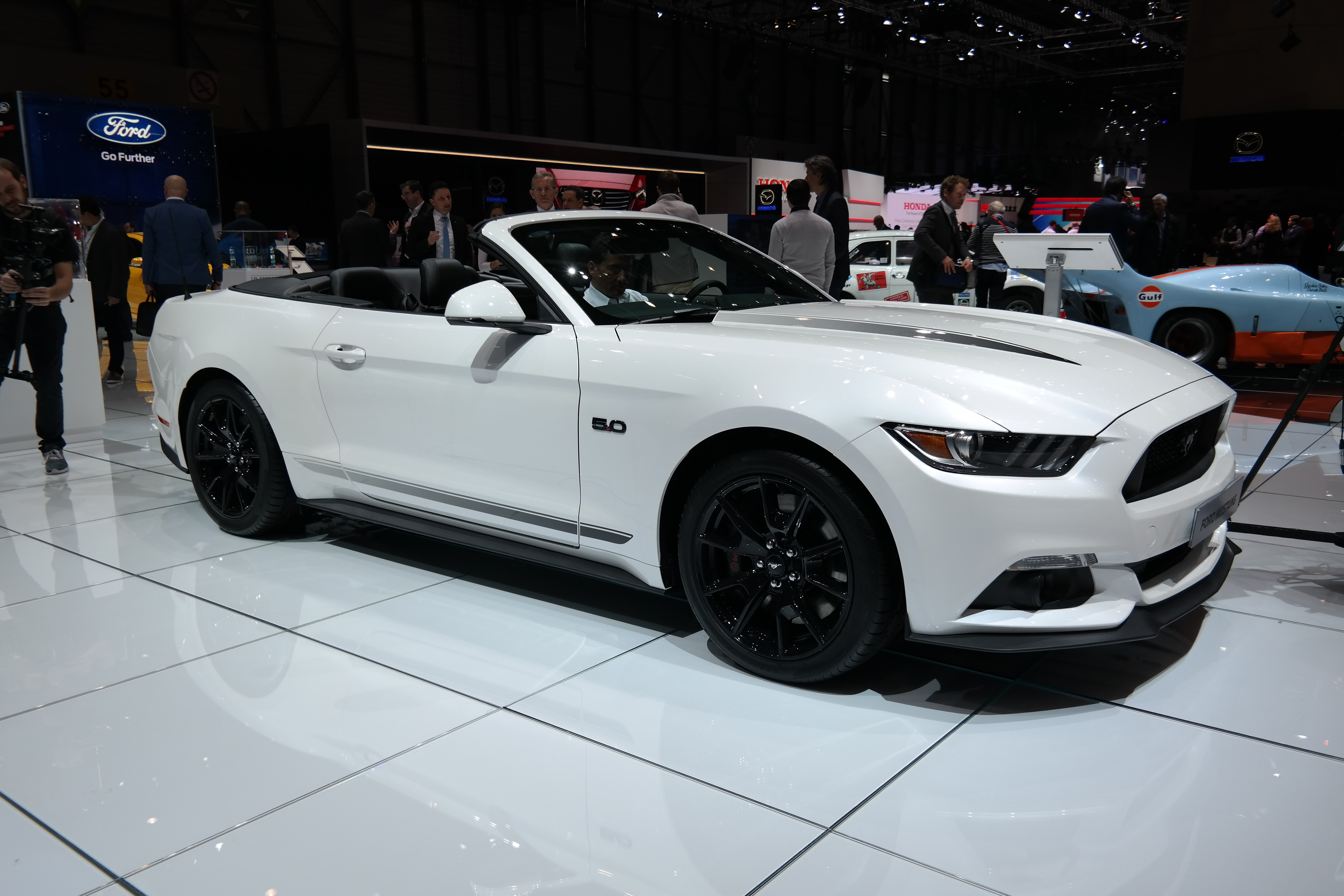 Geneva Motor Show 2017 (photo taken on the first press day)